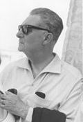 Italian philosopher Andrea Emo